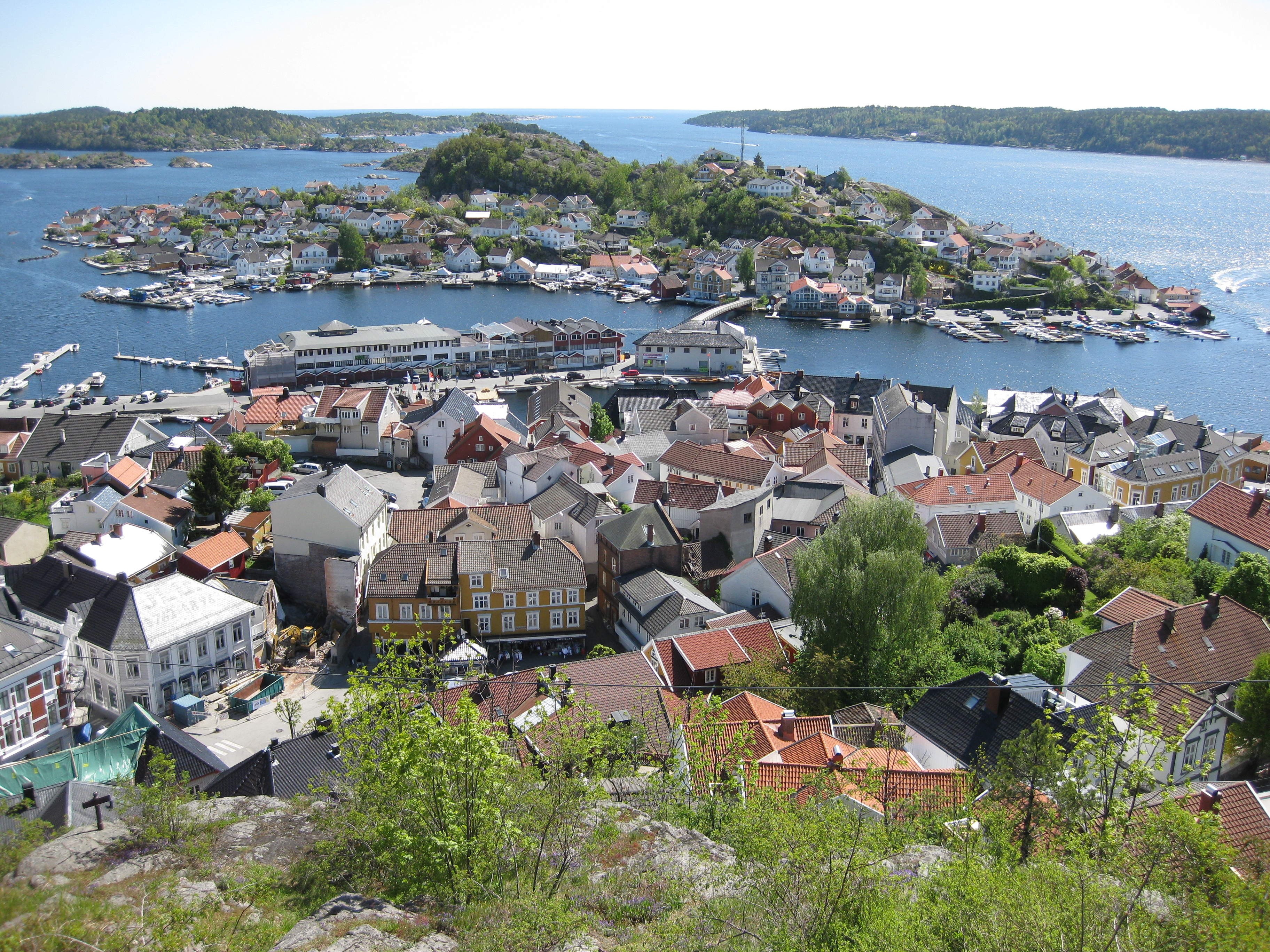 Kragerø